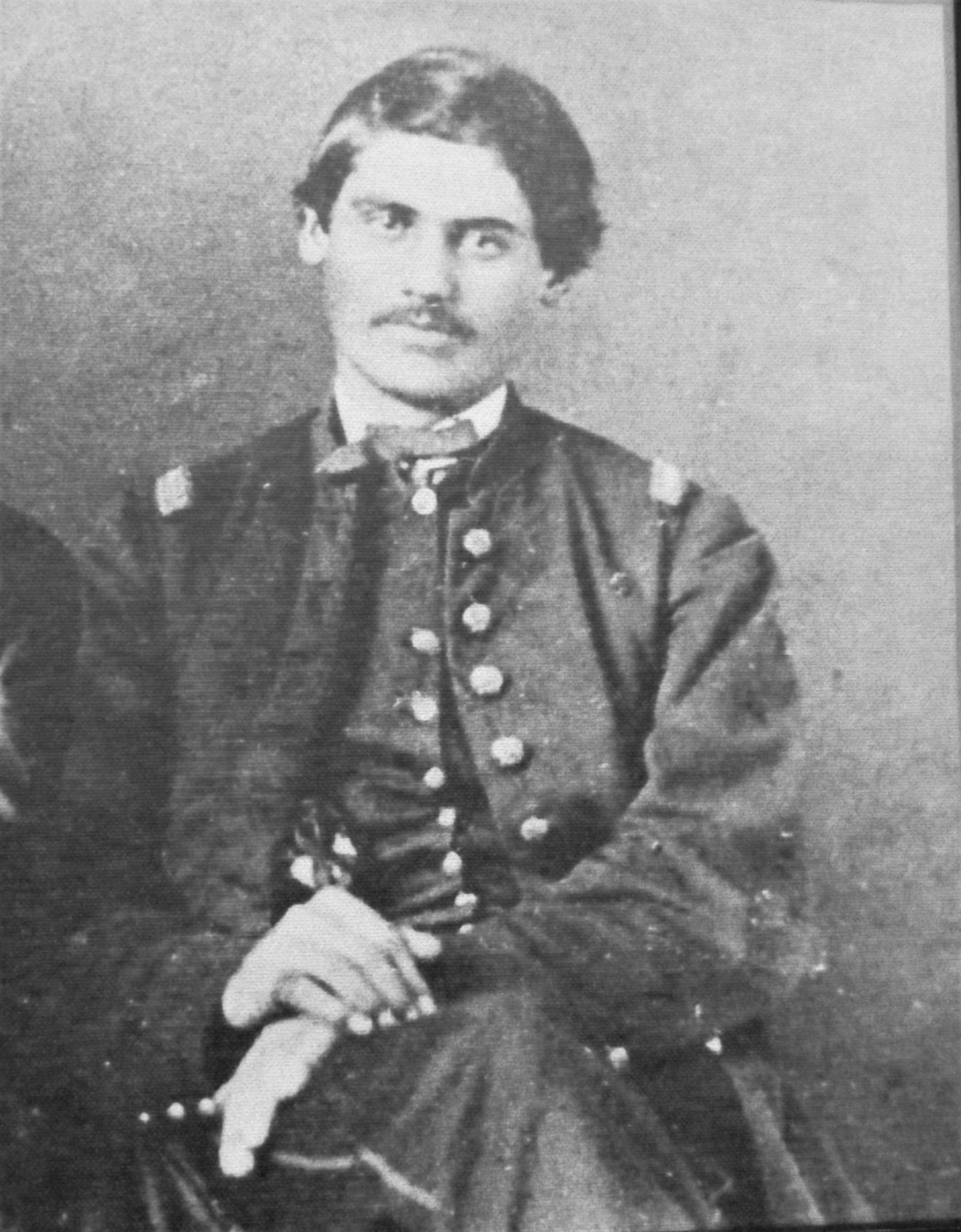 Jacob Parrott, Union Army soldier and participant in the Great Locomotive Chase.